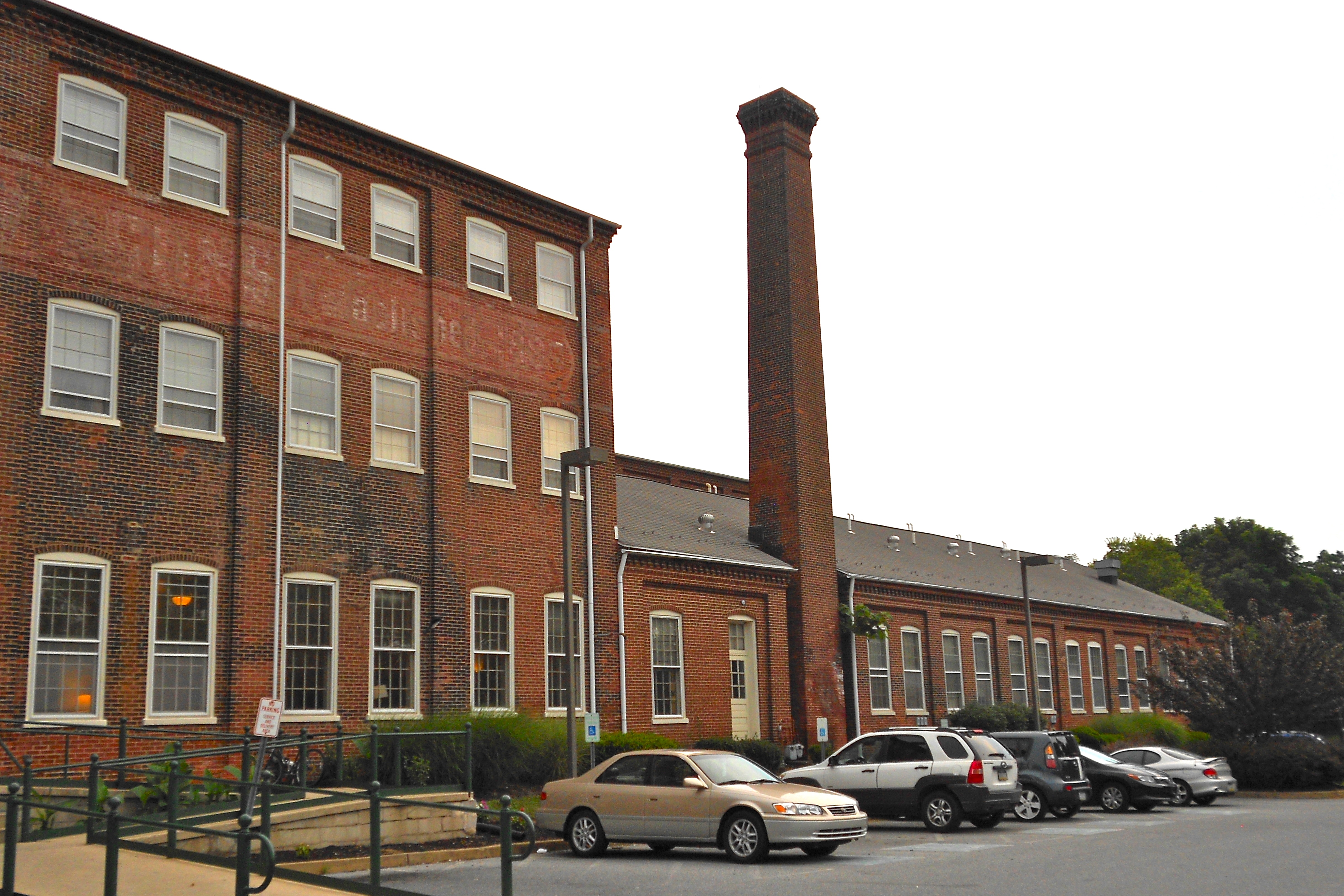 Columbia Wagon Works, listed on the NRHP on February 2, 2001. Located at 920 Plane Street, Columbia, Lancaster County, Pennsylvania. (most easily accessed via 5th street or Manor Ave.) Manufactured horse drawn wagons and then after WWI attempted car body manufacture. Converted into apartments. There are 6 big buildings aligned in an H shape and 1 smaller, separate building.